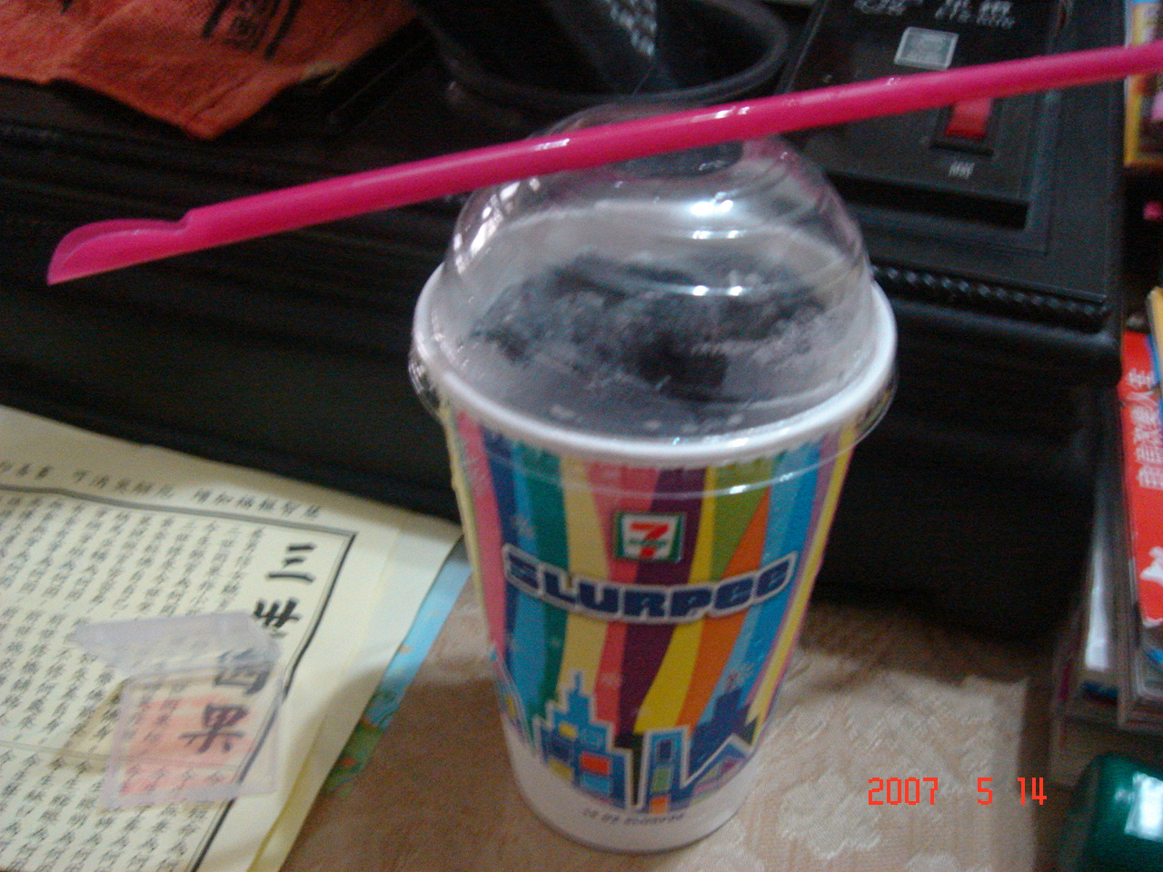 A medium-sized Slurpee in Taiwanese 7-11 and straw.